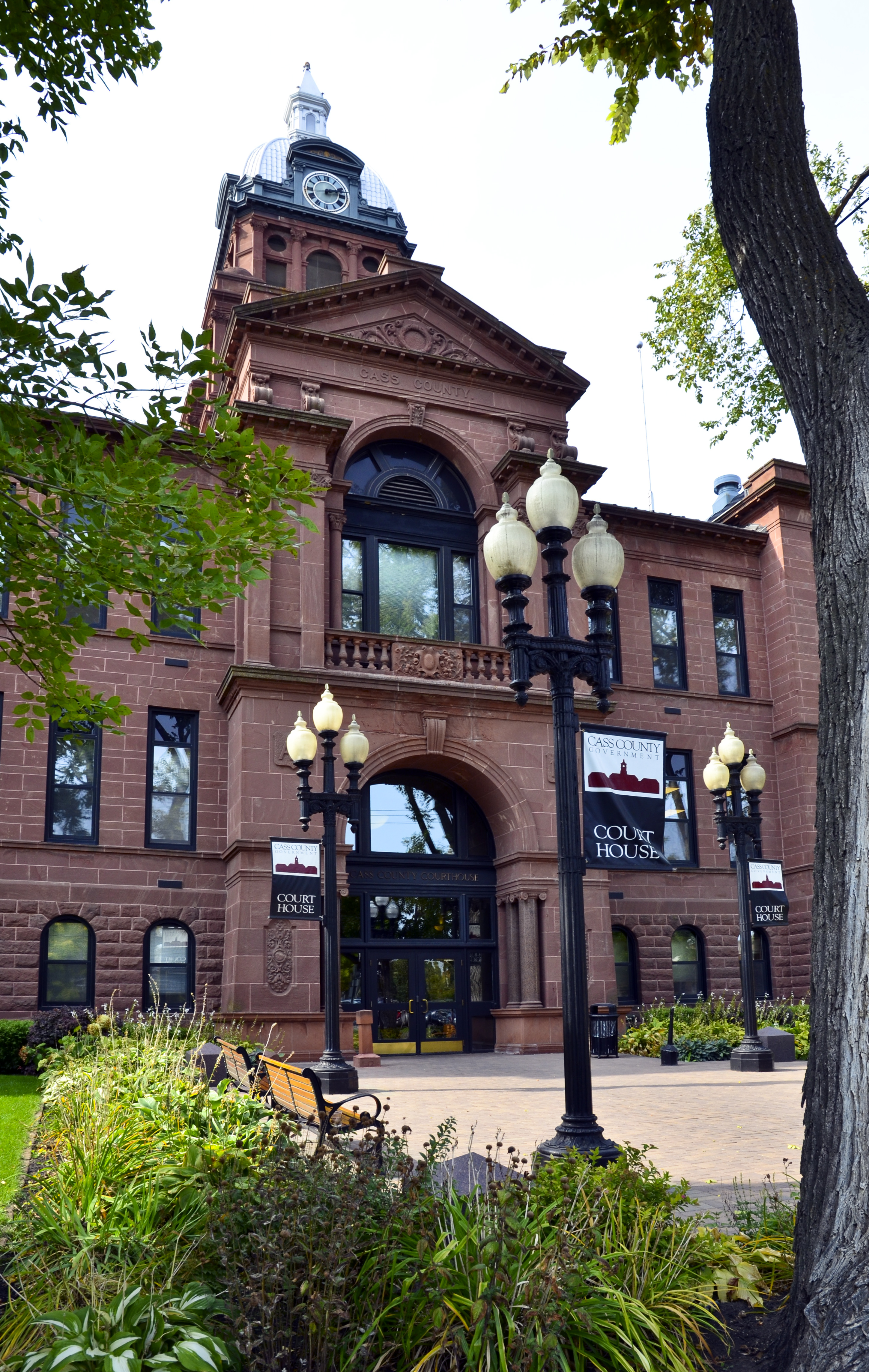 Cass County Court House, Jail, and Sheriff's House